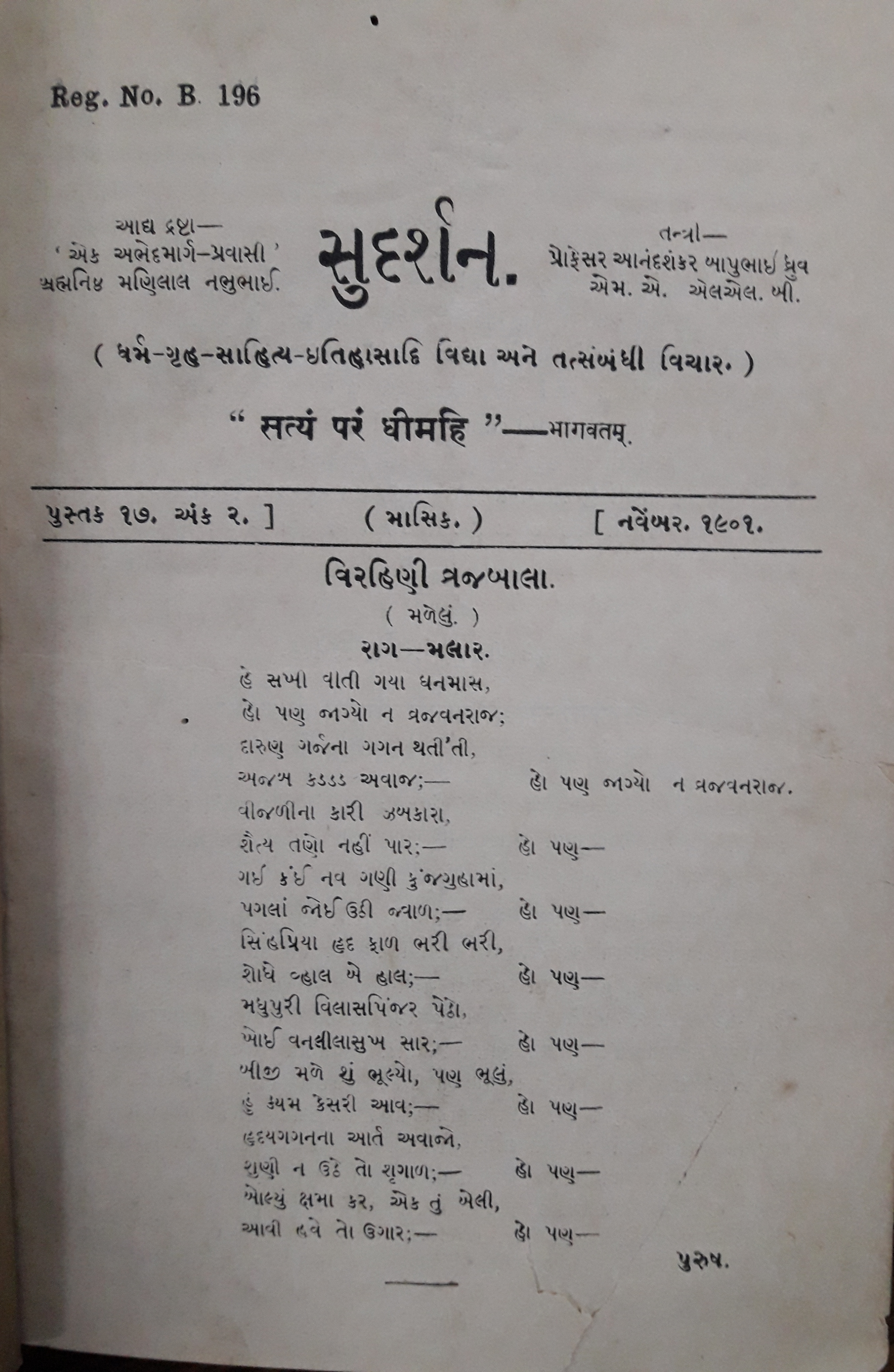 Front page of ' Sudarshan' (November 1901 issue), a Gujarati magazine, founded by Manilal Nabhubhai Dwivedi